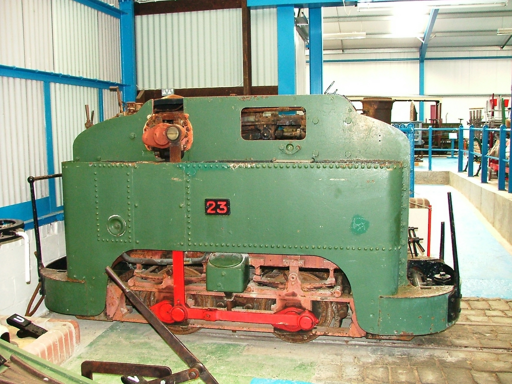 This is a locomotive that worked in the Guinness brewery in the 1920s. It is a narrow gauge engine but it could be lifted onto a standard (full size) gauge wagon and operate on that gauge too. Taken at Amberley Working Museum, England.